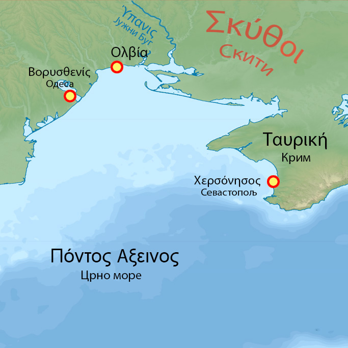 Olbia map